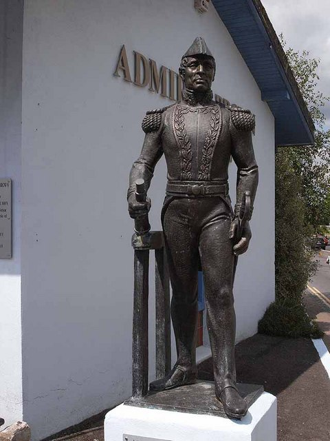 Statue of Admiral Brown This statue stands outside the recently opened museum which commemorates Admiral William Brown (Guillermo Brown) (1777-1857), founder of the Argentine navy, who was born in Foxford. Brown is regarded as one of the heroes of Argentine history, to such extent that he has named after him: several ships of the Argentine Navy, an Argentine naval base, three towns, 320 schools, six football clubs and about 1100 streets. A public park in Foxford under development is also to be named after him. He has been commemorated on postage stamps issued both by Argentina and by the Irish Republic.